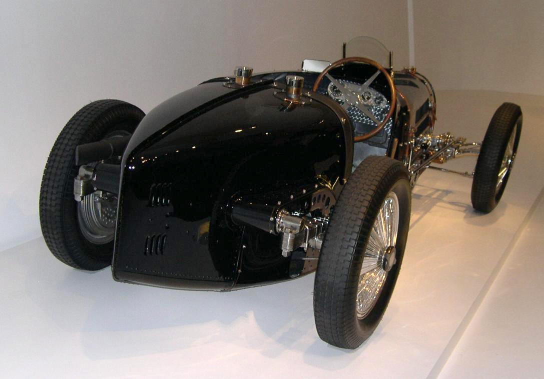 1933 Bugatti Type 59 Grand Prix From the Ralph Lauren collection on display at the Boston Museum of Fine Arts. Photo taken in 2005.